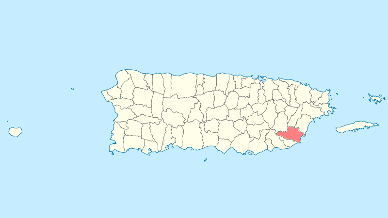 Municipal locator of Puerto Rico